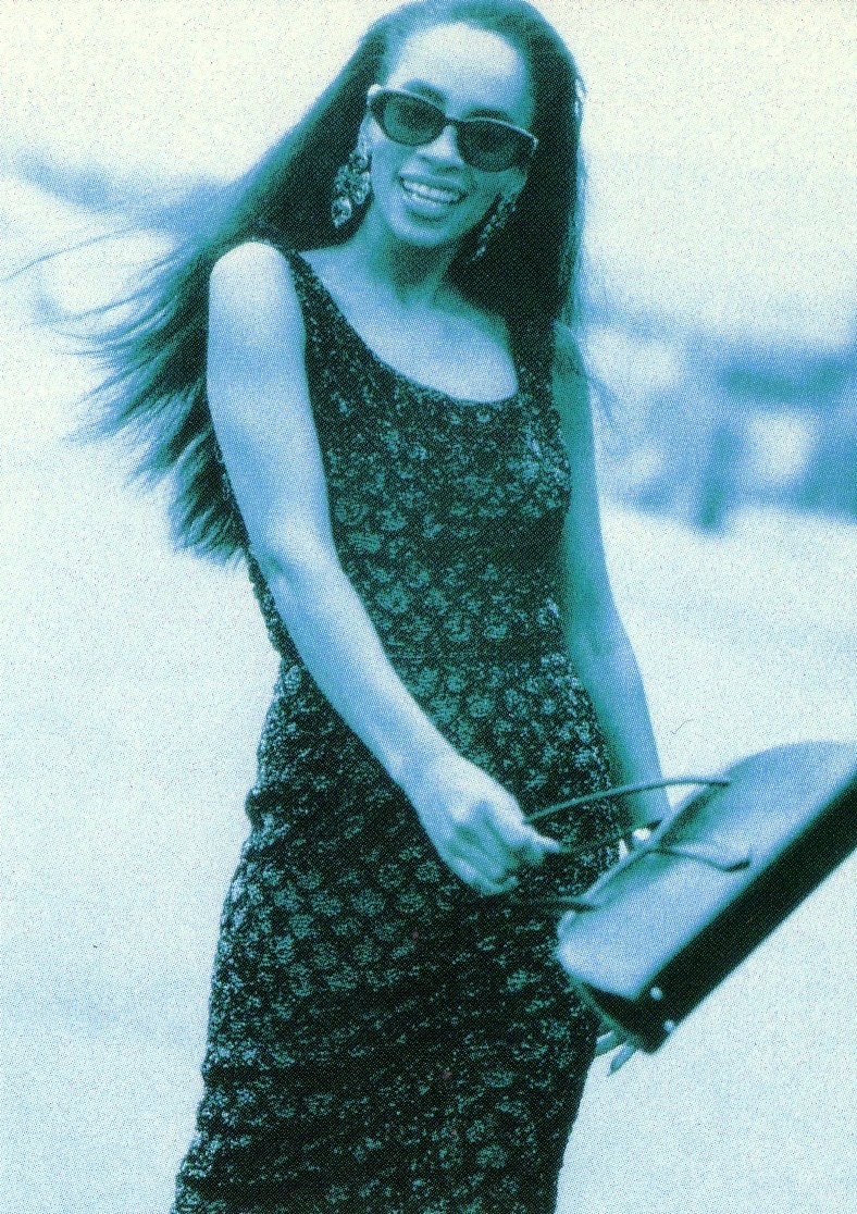 Jody Watley in 1950's Vintage Black Sequined Cocktail Dress in 1990.